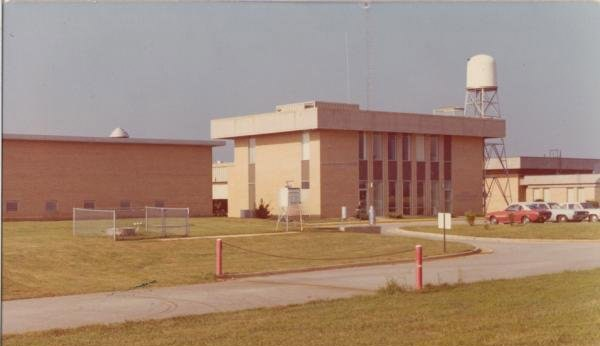 National Weather Service office at the Huntsville International Airport during the mid 1970's. In the foreground, on can see meteorological instruments, like a rain gauge, and in the background the WRS-3 radar tower.